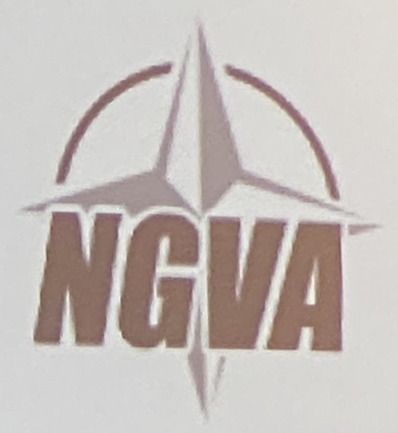 NGVA Logo